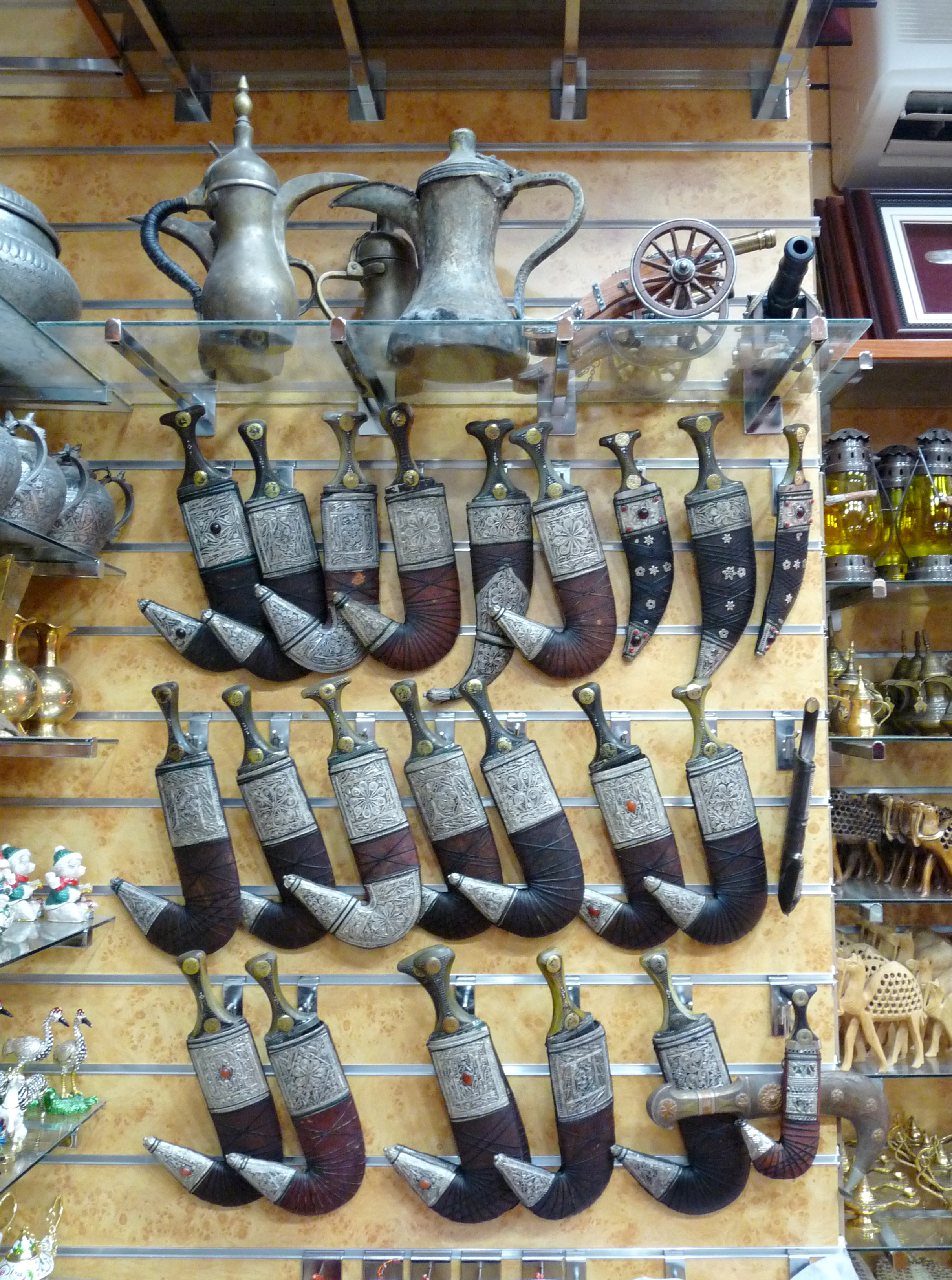 Craft market in Nizwa (Oman)